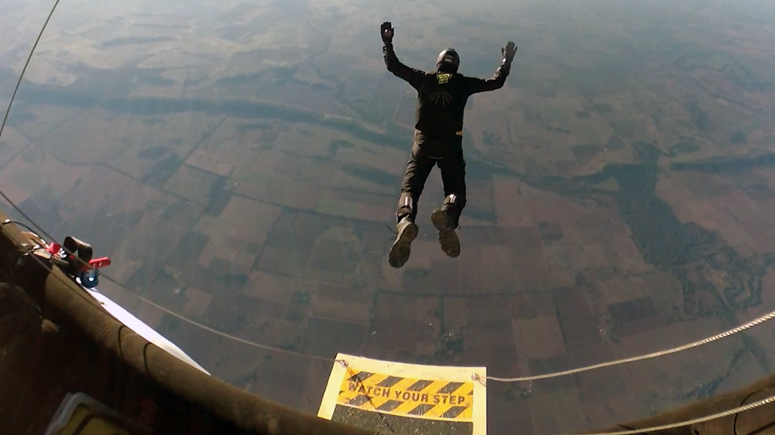 30 June 2018: Marc Hauser free fall jumping into the jet stream from the hanging platform of the balloon.